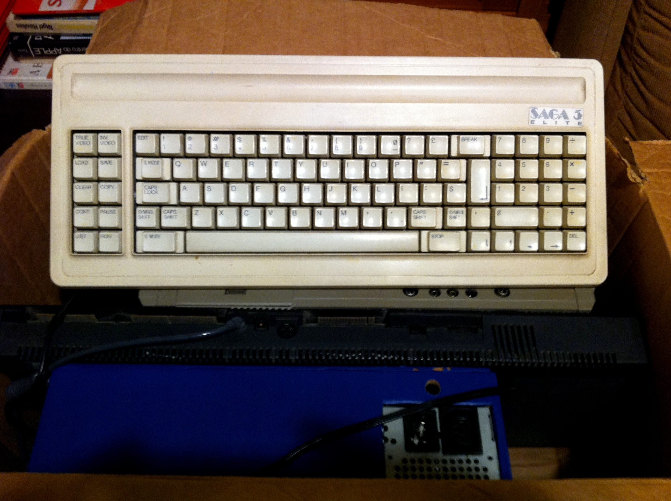 ZXSpectrum 48Kbytes computer with Saga 3 Eleite keyboard